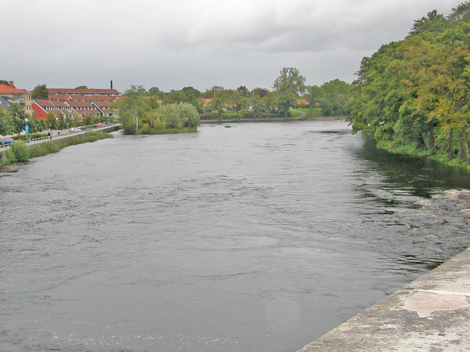 River Ätran through Falkenberg, Sweden.